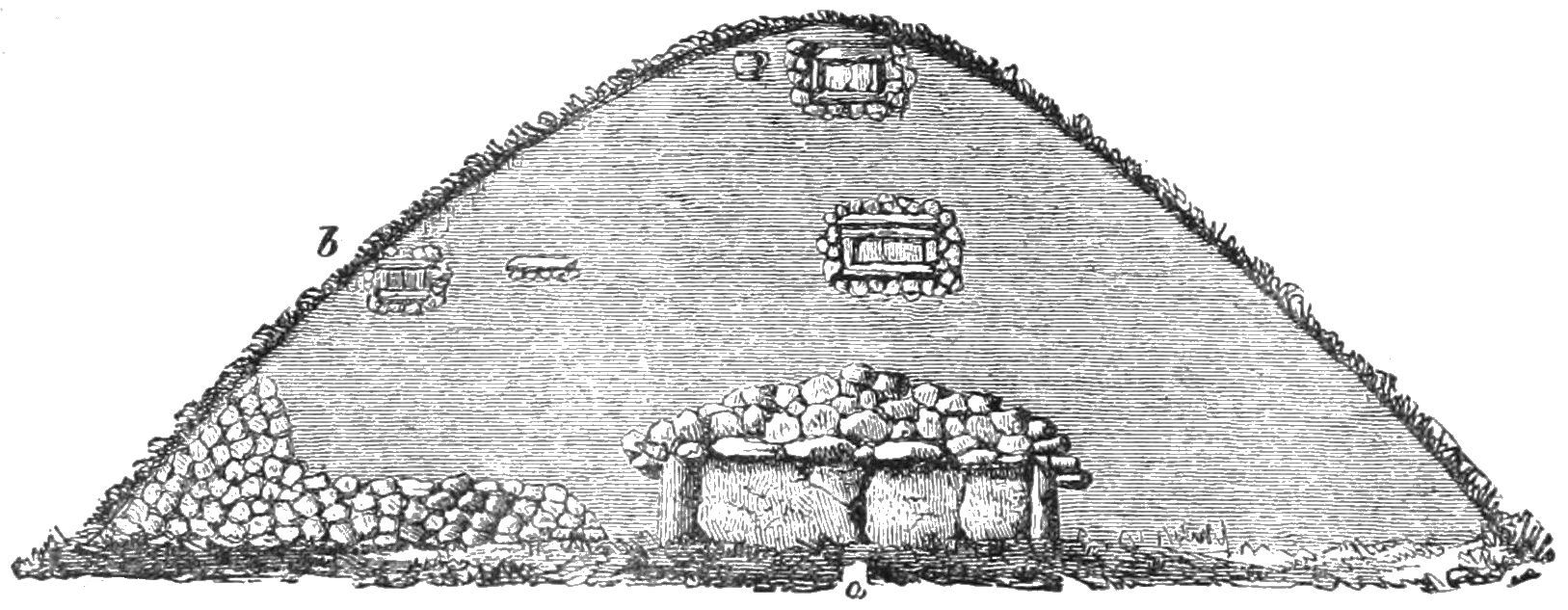 Section of a barrow at Dömestorp (Dömmerstorp) in Hasslöv parish, Hök hundred, Laholm municipality, Southern Halland, Sweden.